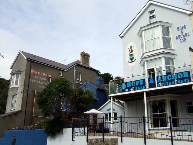 The Great Restorative Next to the pub, an outdated advertisement suggests an alternative (but nevertheless alcoholic!) pick-me-up. "Wincarnis Tonic Wine-- suitable alike for the robust, the invalid and the convalescent. In cases of debility and lowered vitality, WINCARNIS will be found a most efficient restorative. WINCARNIS is an entirely natural tonic and its effects are lasting. WINCARNIS is also an invaluable restorative during convalescence and it is unsurpassed as a general tonic. Strongly recommended throughout the world as being both nutritious and stimulating. Made from Choice Wine, Finest Extracts of Meat and Malt, and Glycerophosphoric Acid. Take a wine-glassful three times each day."